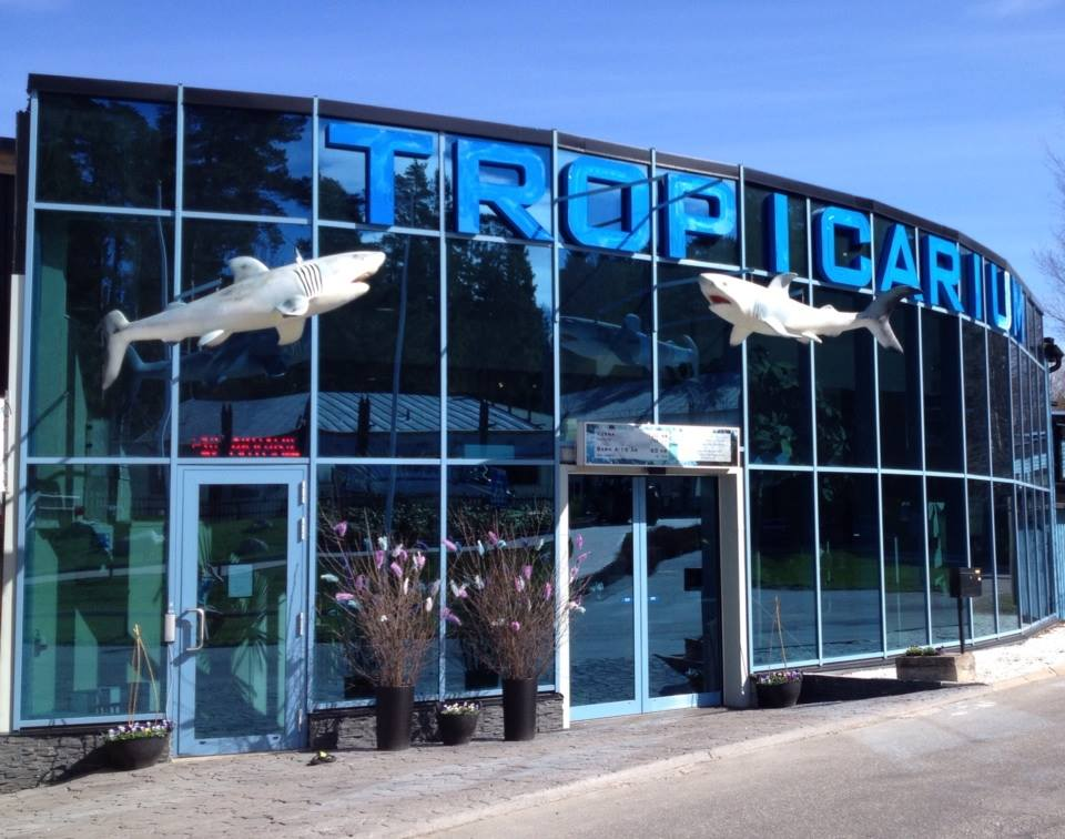 Entrance to Kolmarden Tropicarium